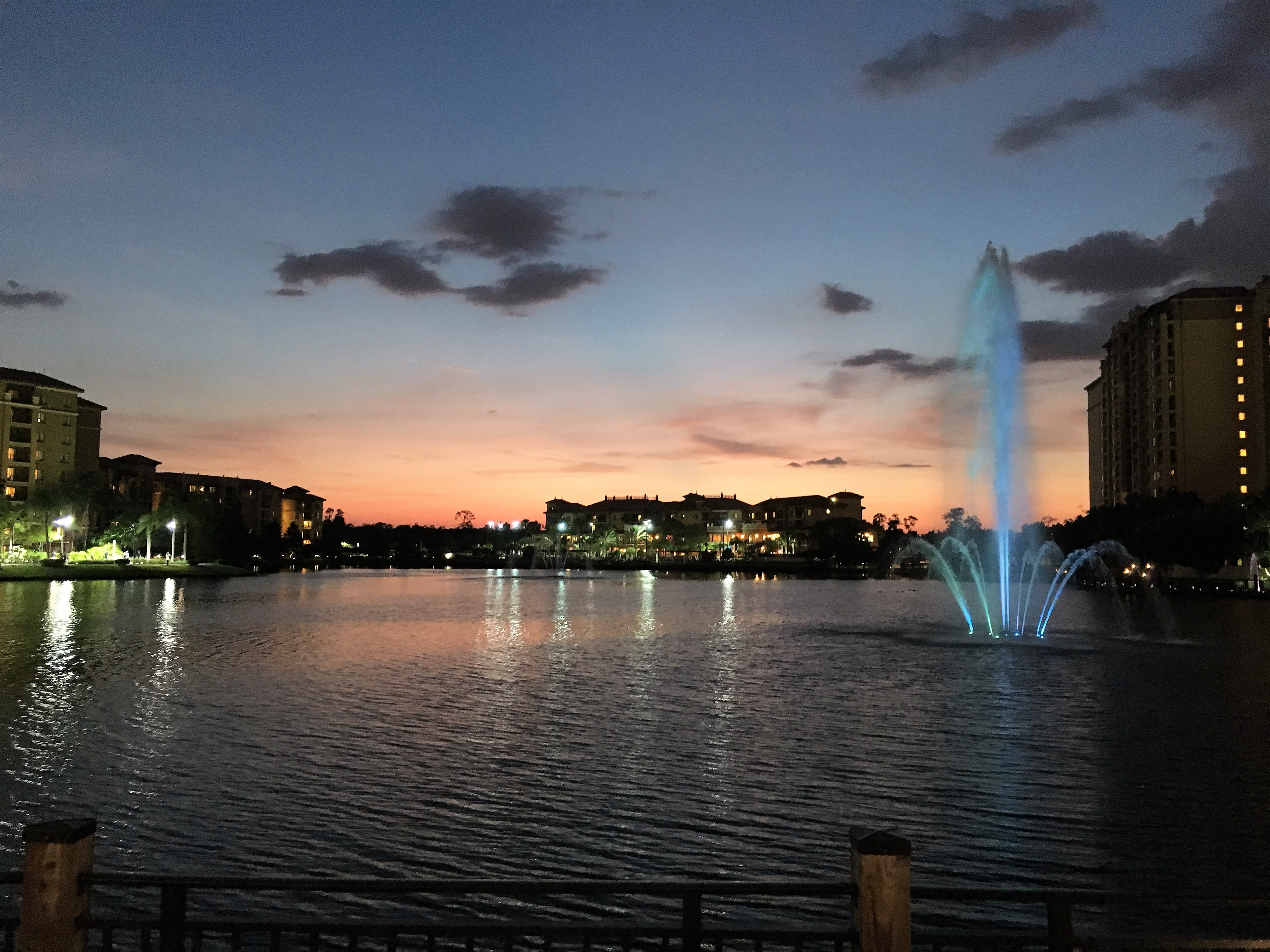 Views of the Wyndham Resort at Lake Buena Vistas